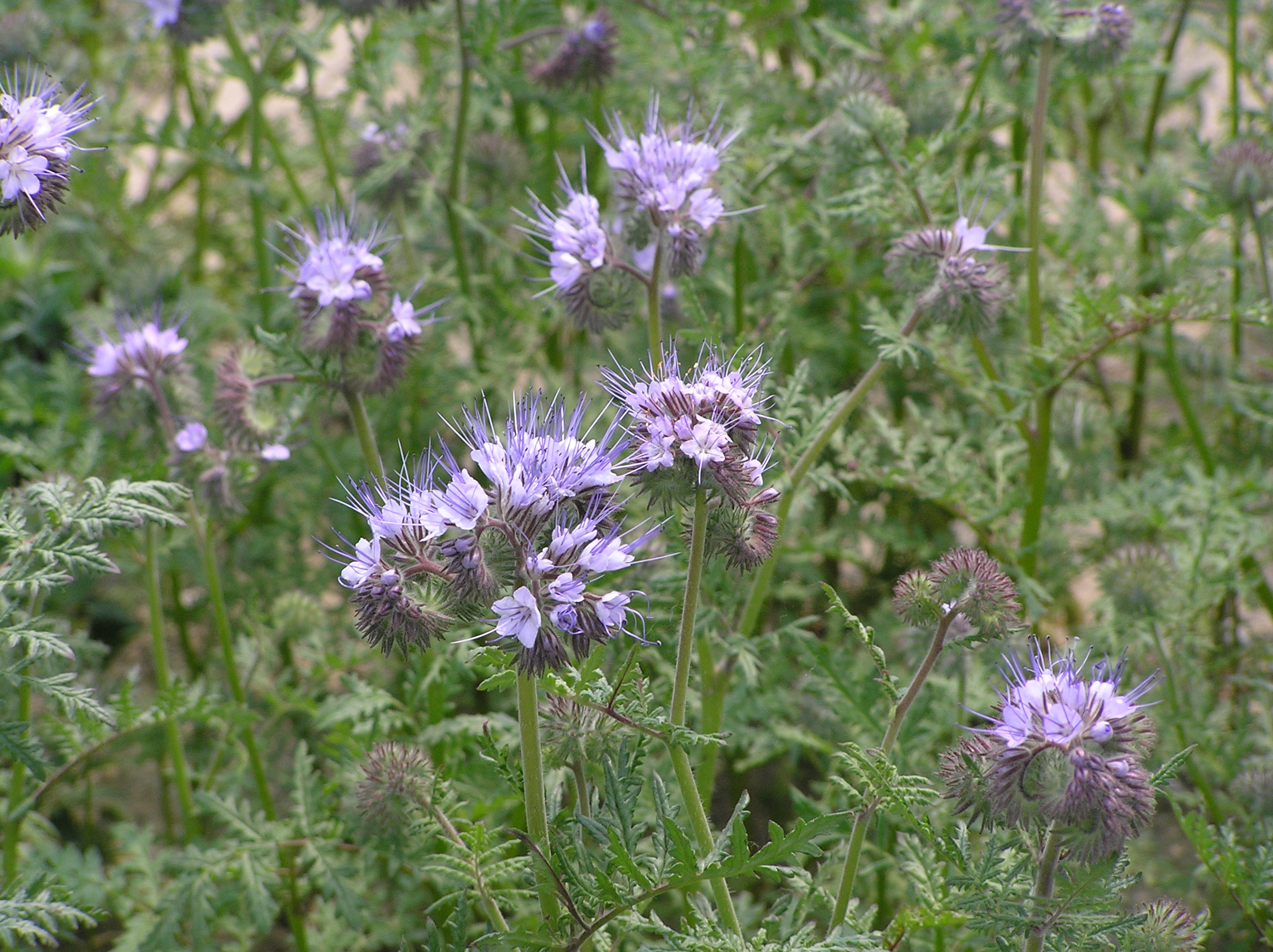 Phacelia tanacetifolia